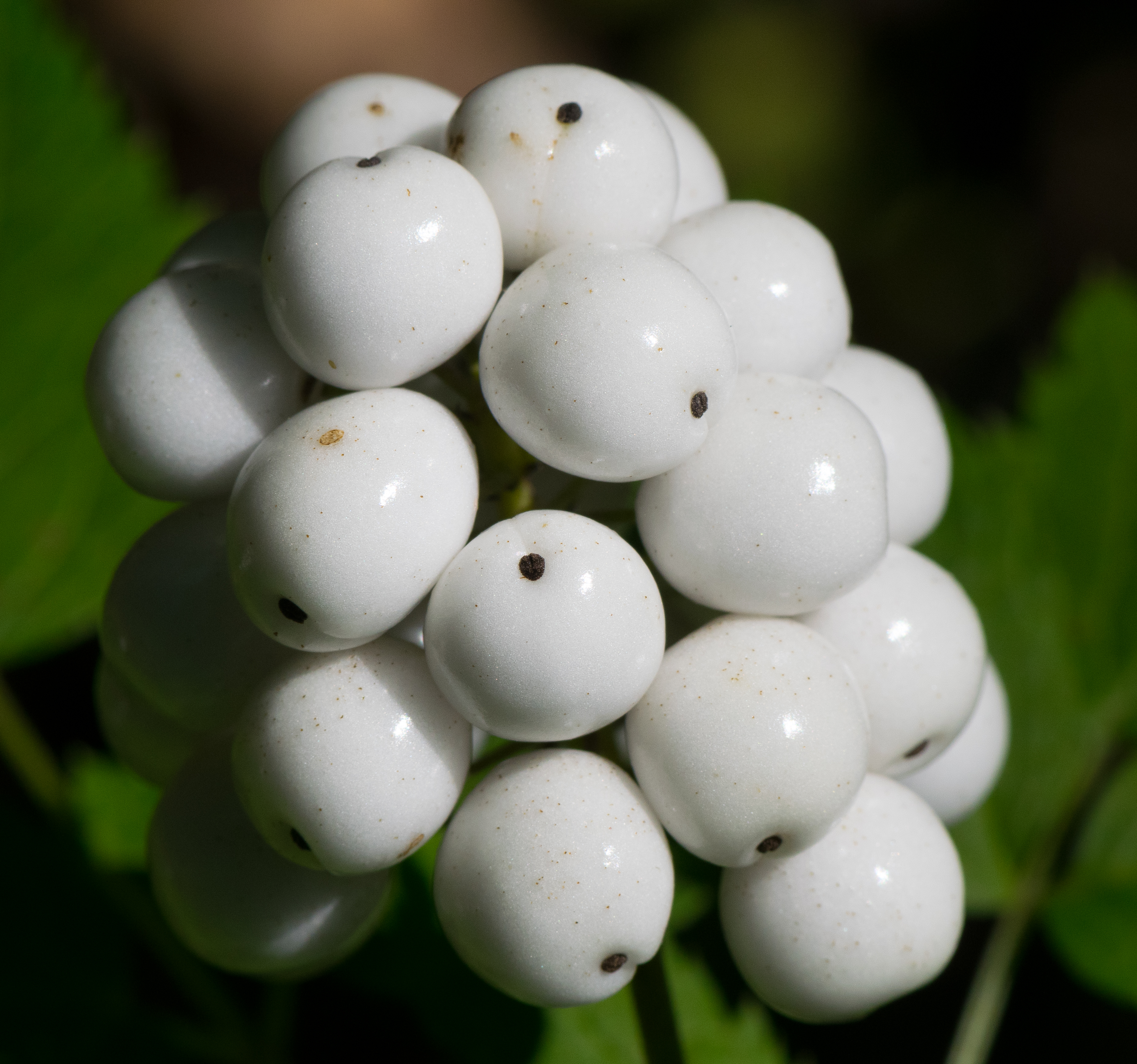 Clifford Messinger Dry Prairie & Savanna Preserve Whitewater Oak Opening Unit Wisconsin State Natural Area #230 Walworth County